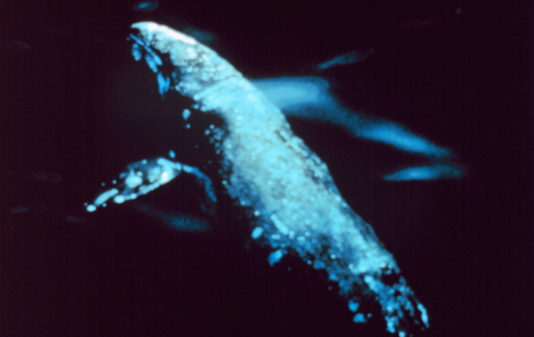 Gray whale -Aerial view of a gray whale - Eschrichtius robustus.